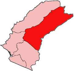 Map of Grand Cape Mount County, Liberia showing Gola Konneh District; created with the GIMP. Made by User:Acntx.